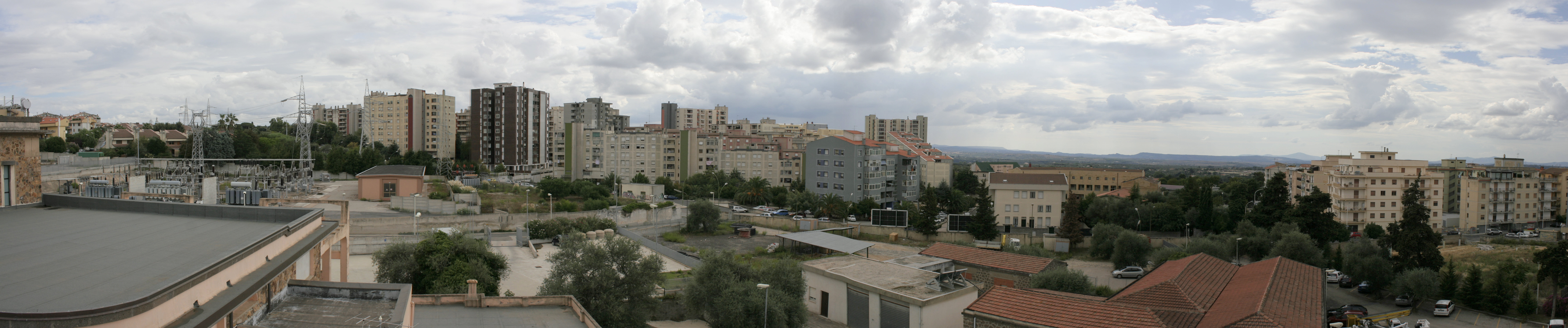 Sassari, panoramic view of the south periphery